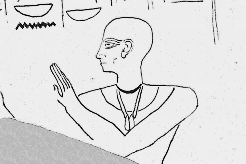 Quick sketch of a relief depicting the ancient Egyptian high steward Padibast, or Pedubast, from tomb TT391 at Asasif, usurped by him. 26th Dynasty, Late Period. Based on this picture.